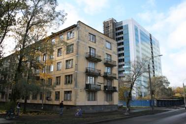 Urbanistics institute in Saint Petersburg, Russia.